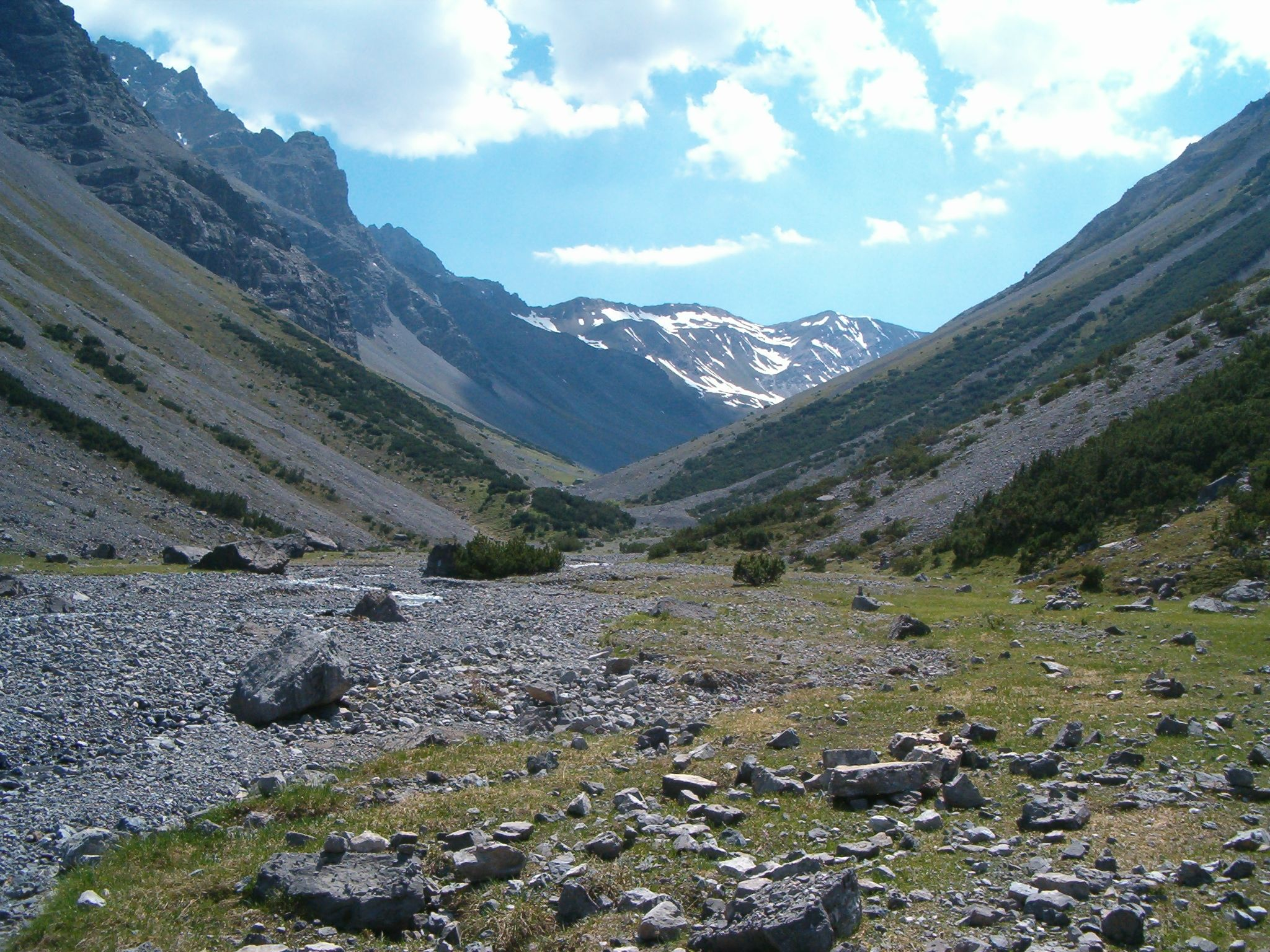 Welschtobel Valley at Arosa/Switzerland